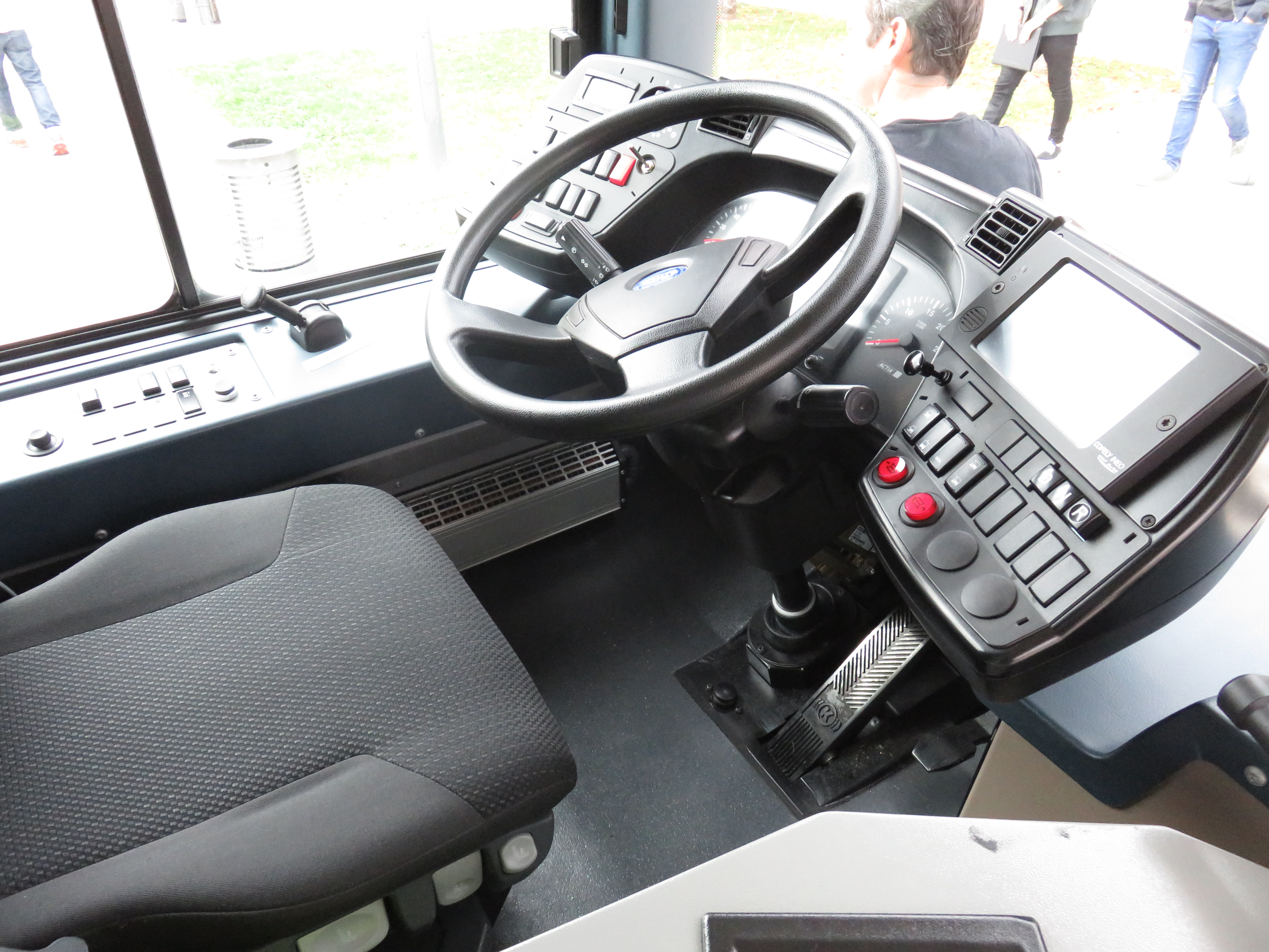 The driving post of an Heuliez GX 137L (n°4113 of the French agglomeration community Chambéry Métropole - Cœur des Bauges).